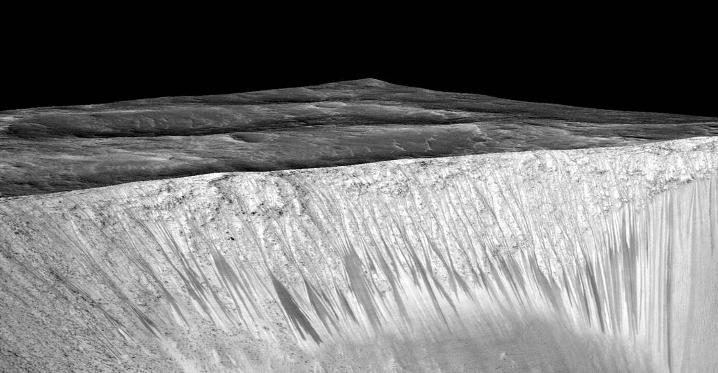 Original file description by NASA: Dark narrow streaks, called "recurring slope lineae", emanate from the walls of Garni Crater on Mars, in this view constructed from observations by the High Resolution Imaging Science Experiment (HiRISE) camera on NASA's Mars Reconnaissance Orbiter. The dark streaks here are up to few hundred yards, or meters, long. They are hypothesized to be formed by flow of briny liquid water on Mars. The image was produced by first creating a 3-D computer model (a digital terrain map) of the area based on stereo information from two HiRISE observations, and then draping an image over the land-shape model. The vertical dimension is exaggerated by a factor of 1.5 compared to horizontal dimensions. The draped image is a red waveband (monochrome) product from HiRISE observation ESP_031059_1685, taken on March 12, 2013 at 11.5 degrees south latitude, 290.3 degrees east longitude. Other image products from this observation are at The University of Arizona, Tucson, operates HiRISE, which was built by Ball Aerospace & Technologies Corp., Boulder, Colorado. NASA's Jet Propulsion Laboratory, a division of the California Institute of Technology in Pasadena, manages the Mars Reconnaissance Orbiter Project and Mars Science Laboratory Project for NASA's Science Mission Directorate, Washington.